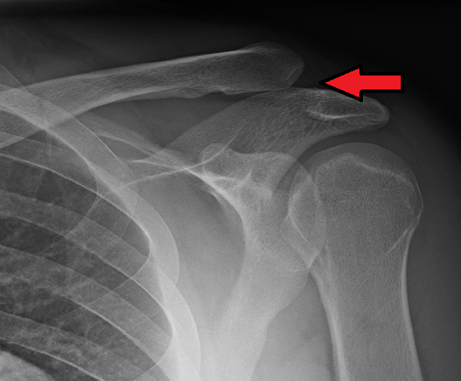 Grade 3 AC joint seperation